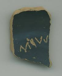 Inscription of the name Lur found at Cetamura in 2006